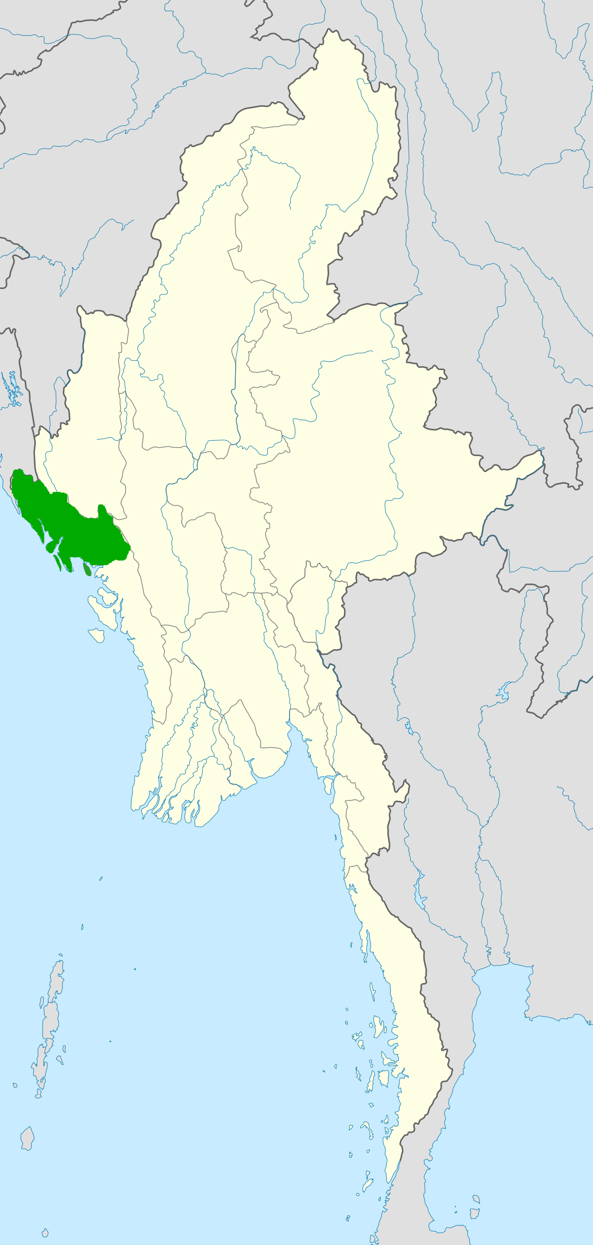 Map of areas that traditionally had Rohingya speakers, currently most are in refugee camps in Bangladesh